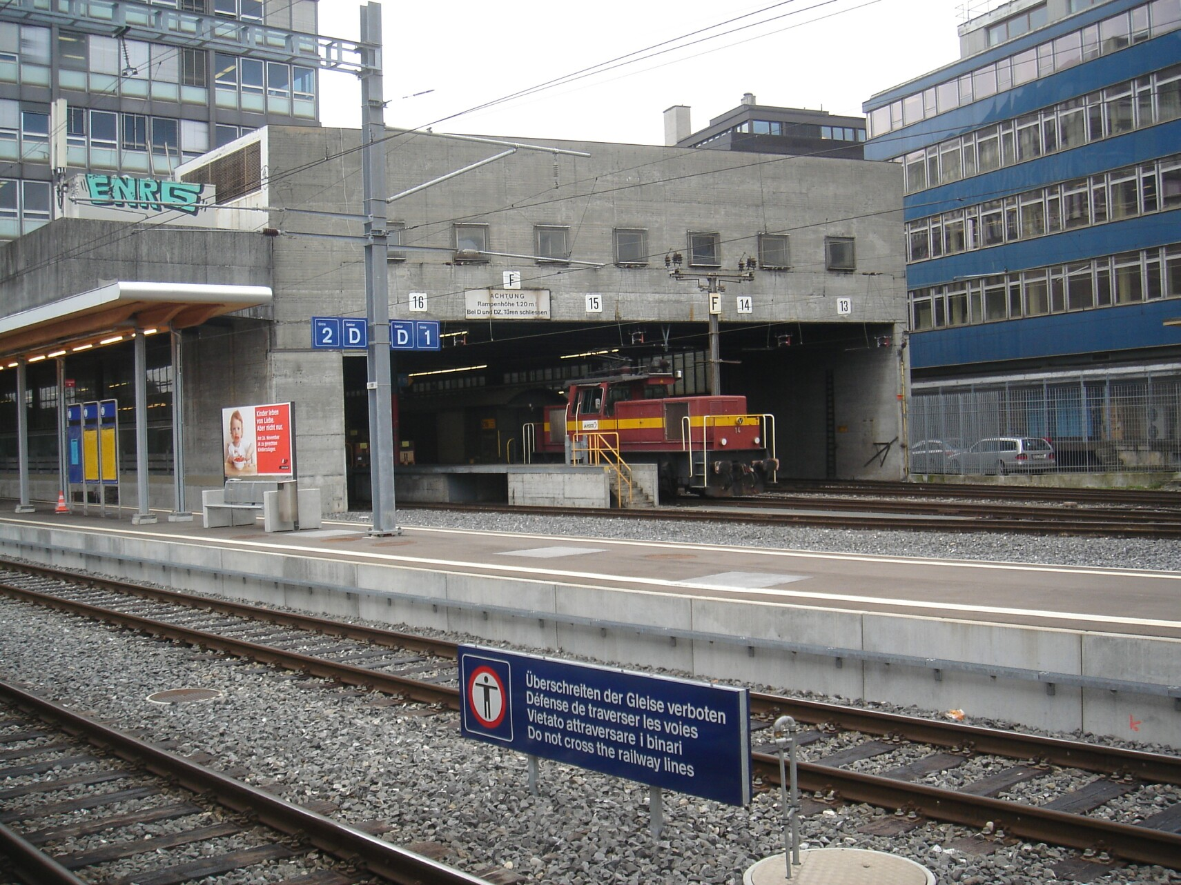 Post-owned electric shunter #14 at the entry of Bern Schanzenpost (hub opened 7 March 1965, closed 7 March 2009)